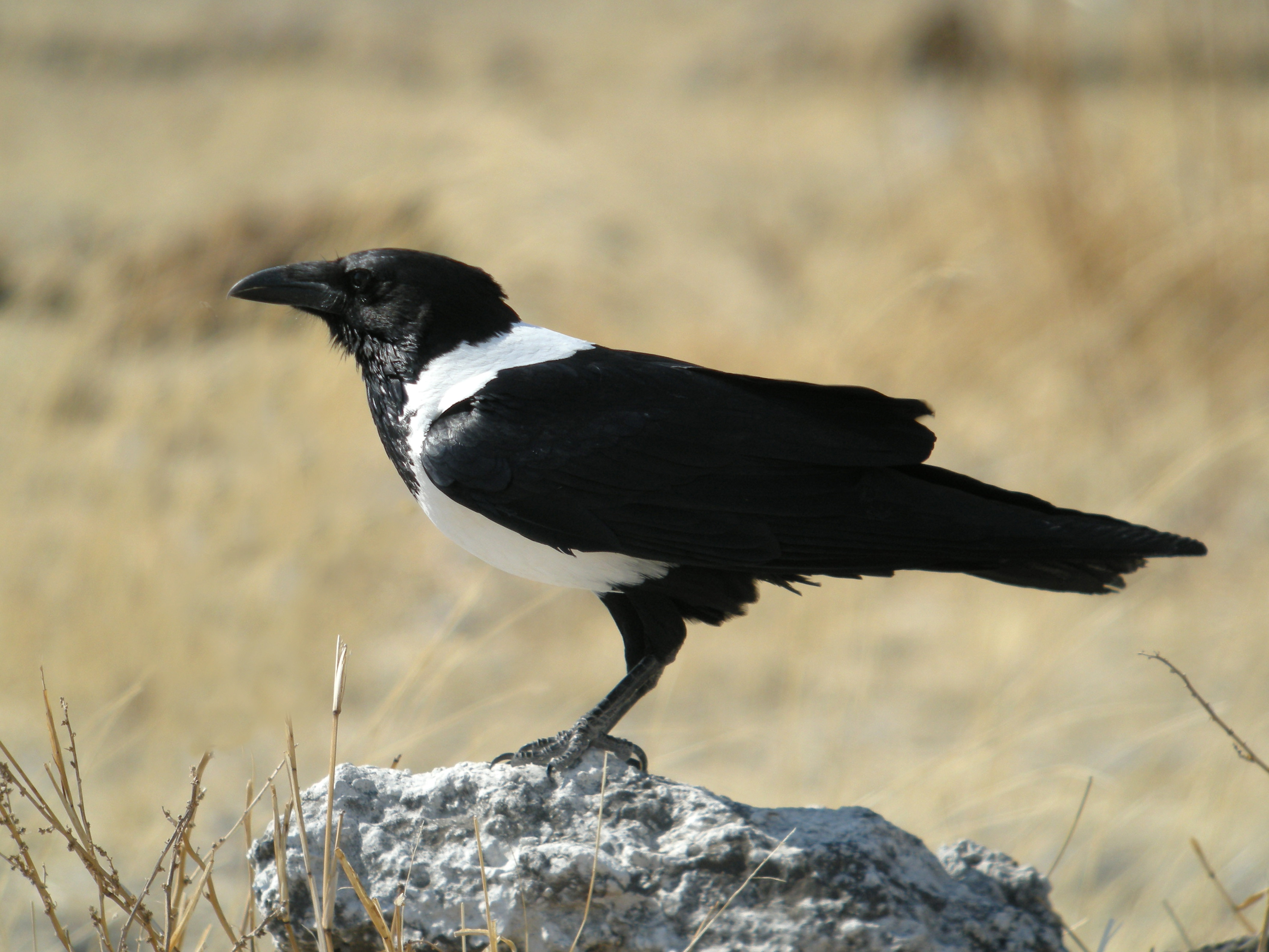 A Pied Crow at Etosha National Park, Namibia.